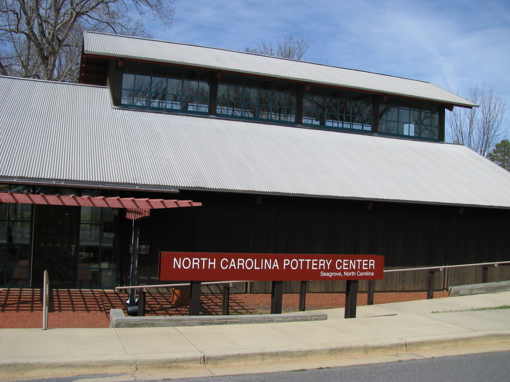 A photograph of the North Carolina Pottery Center in Seagrove. By David Bailey.